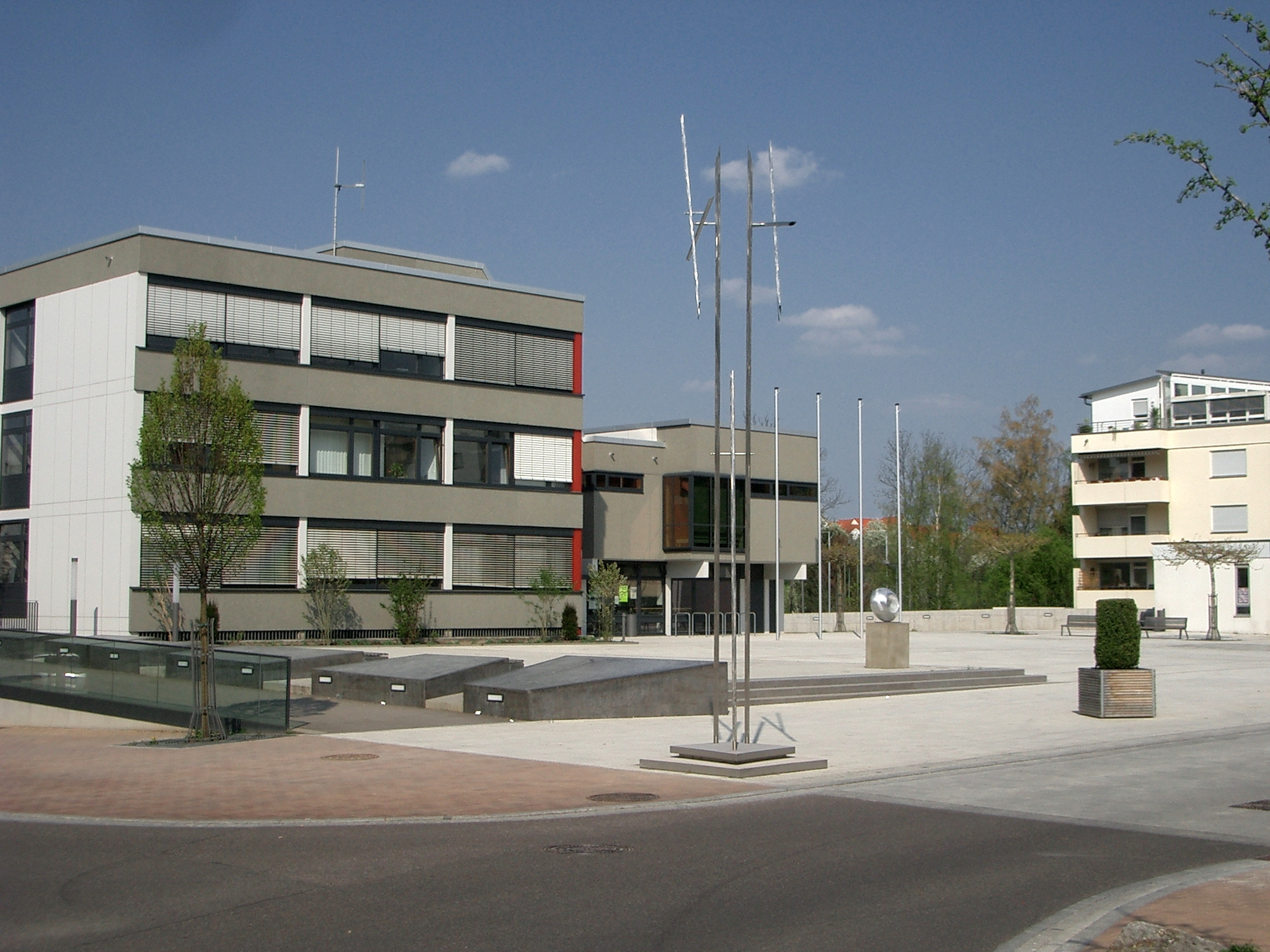 city-hall tamm